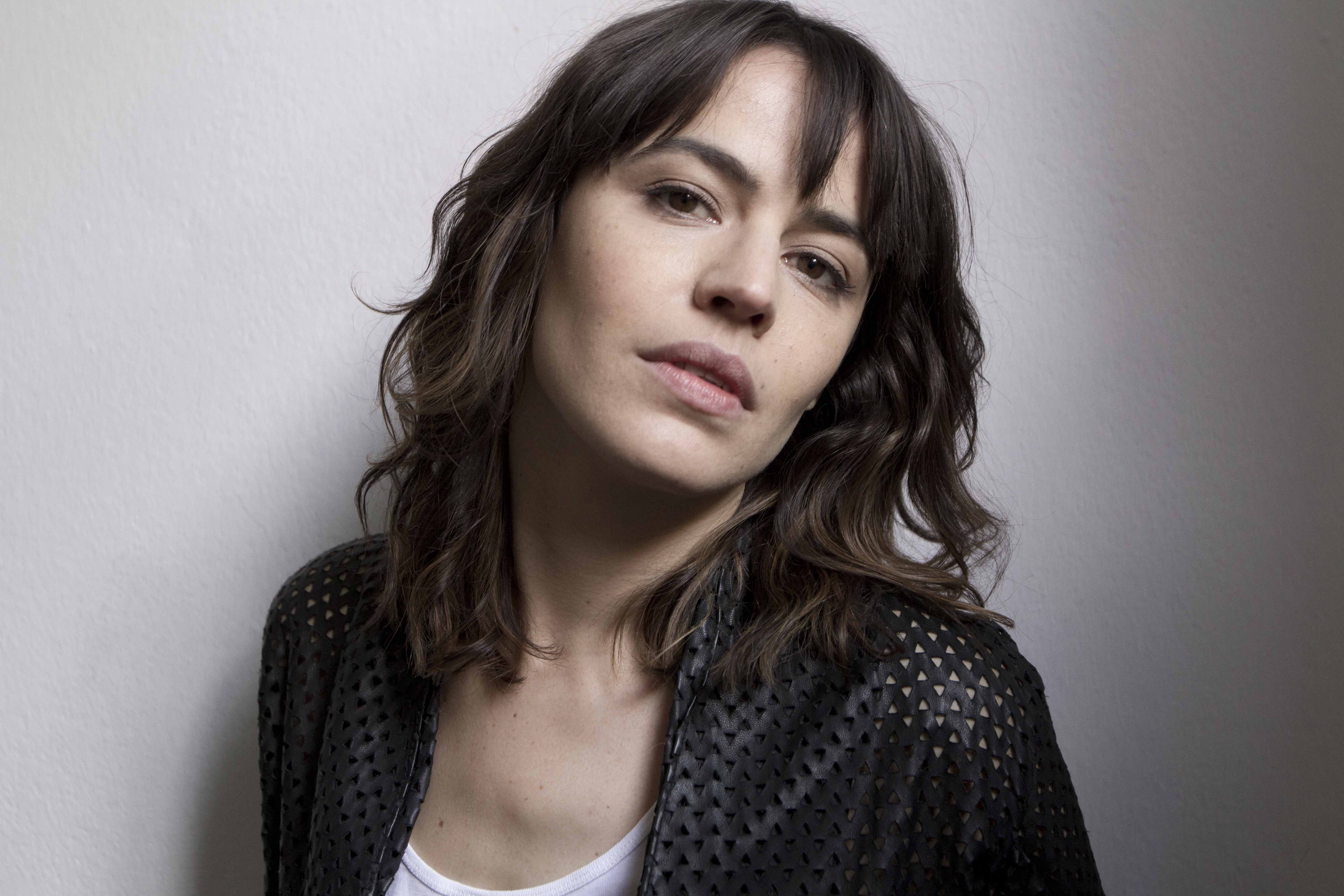 giorgia sinicorni